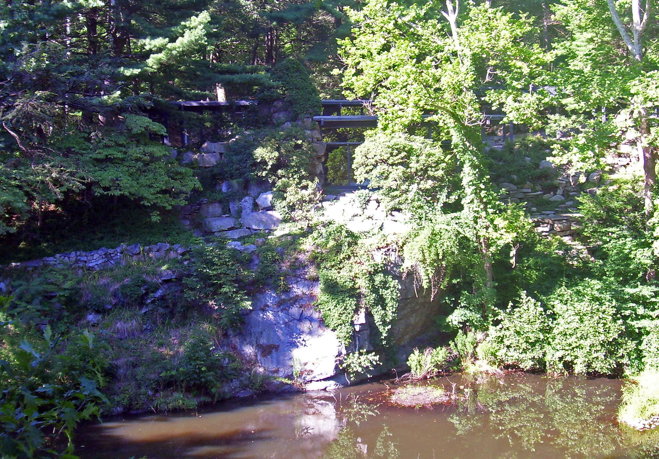 Dragon Rock, self-designed home of Russel Wright at Manitoga in Garrison, NY, USA, a National Historic Landmark